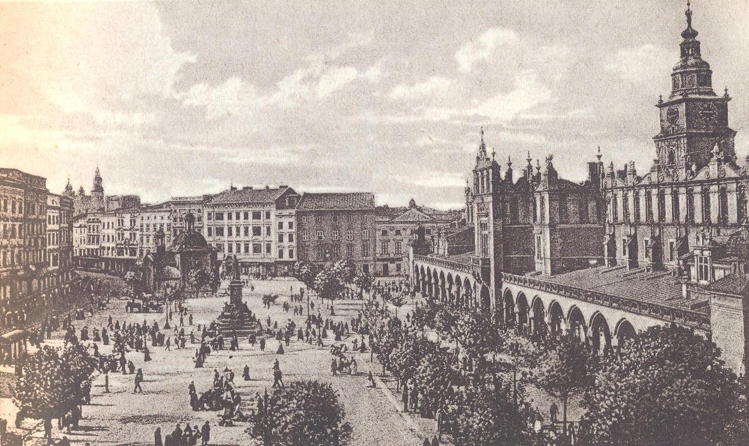 Rynek market square, Krakow, Poland.